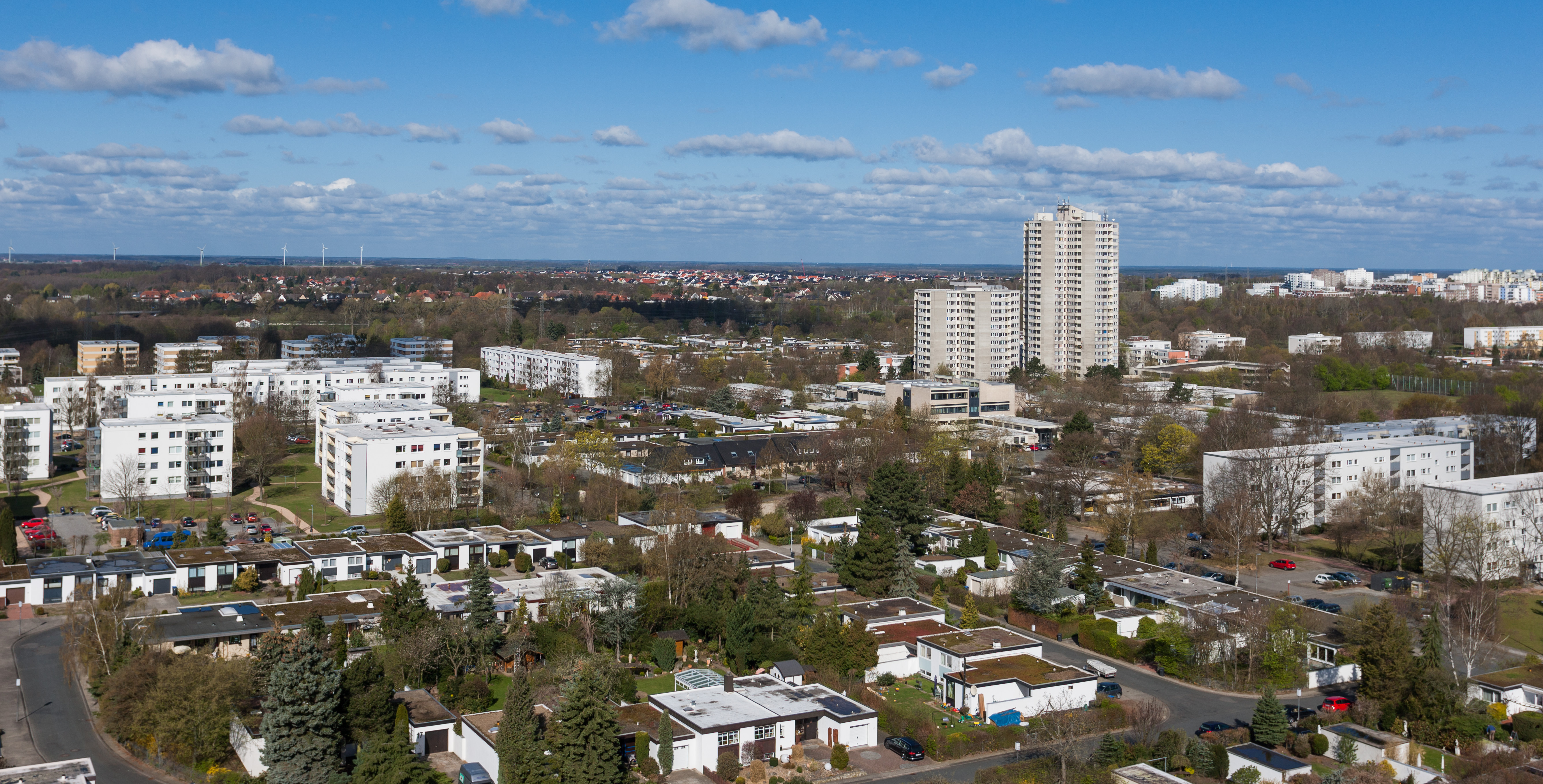 Detmerode, Wolfsburg, Germany